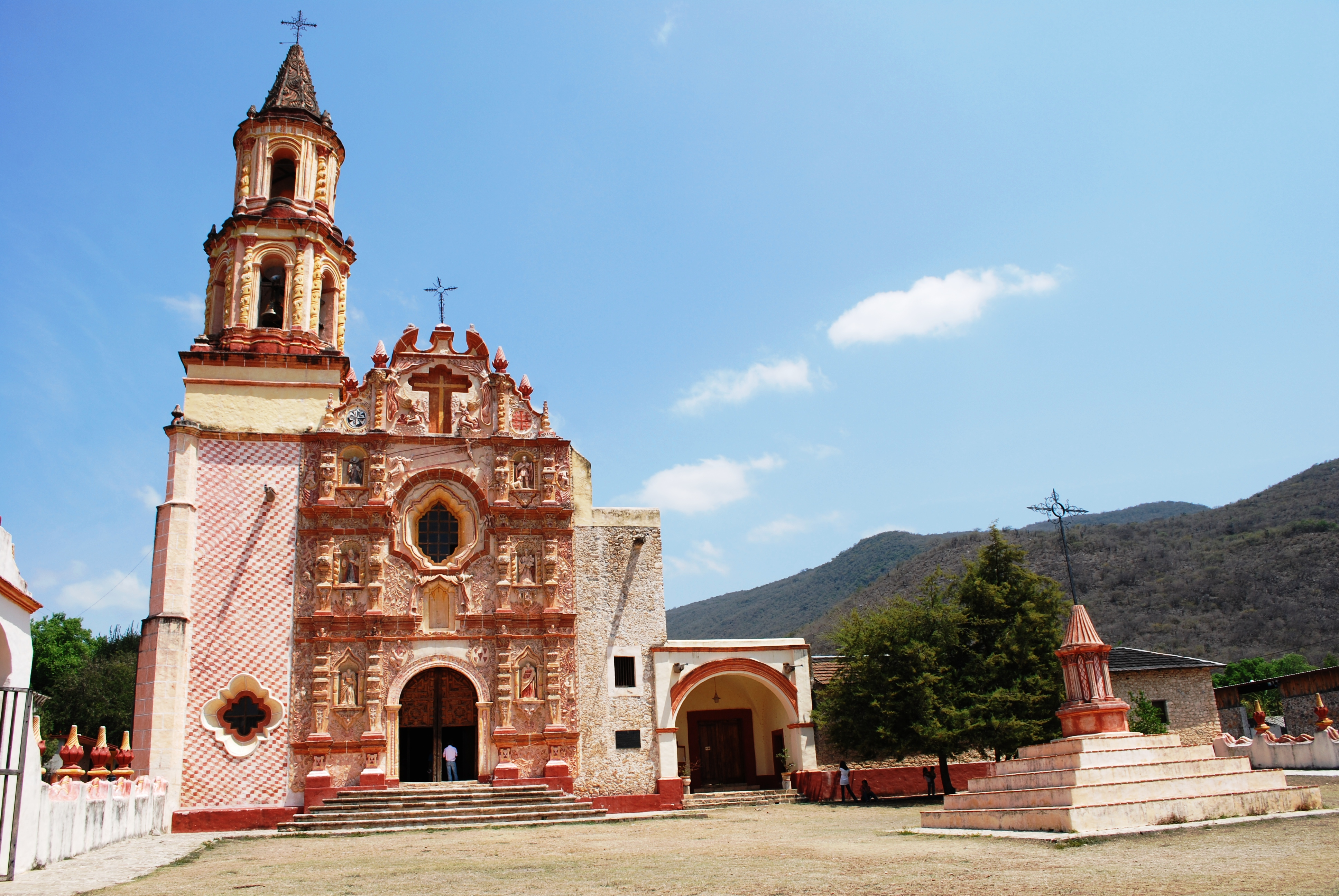 View of the mission at Tancoyol, Jalpan de Serra, Querétaro, Mexico